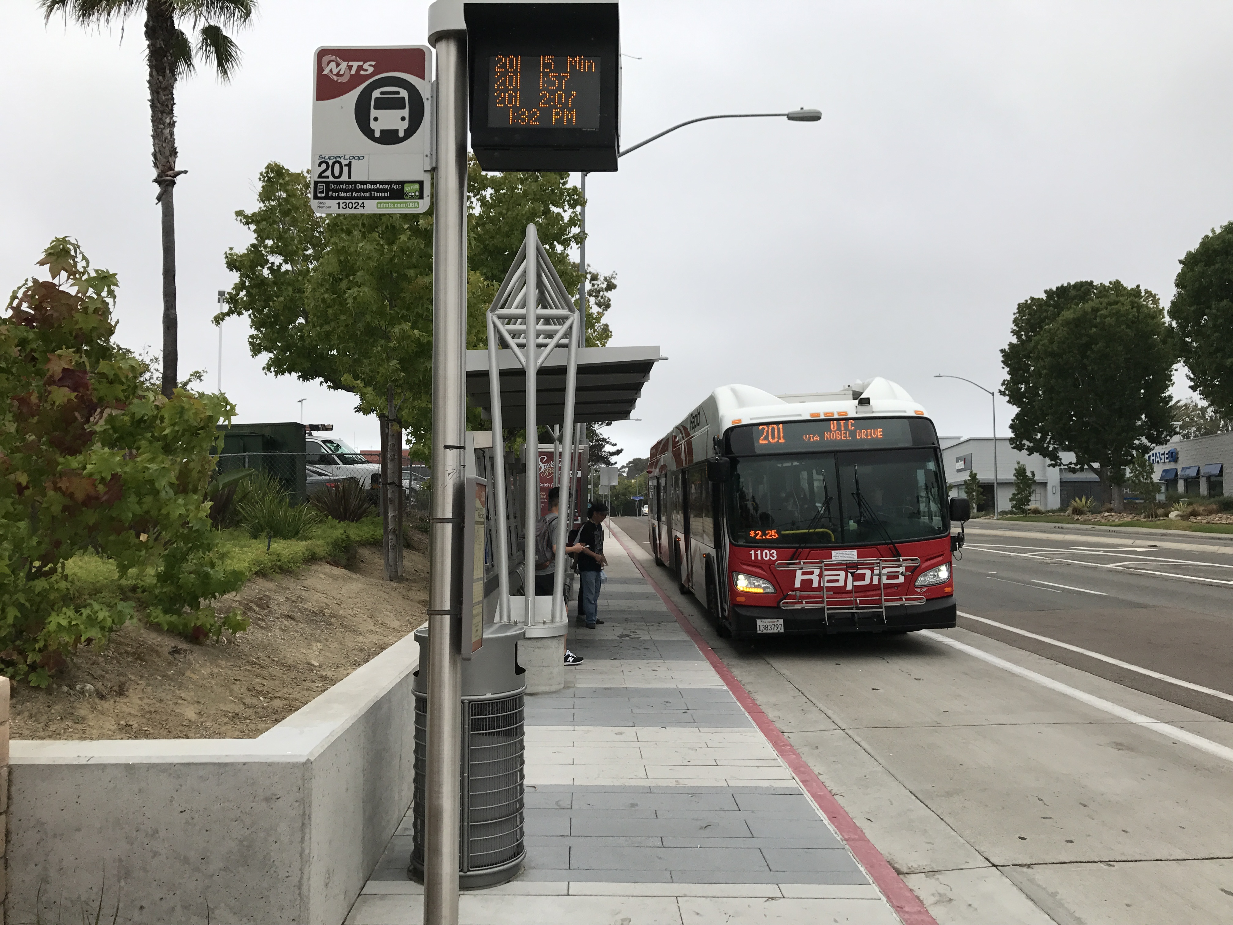 The SuperLoop station and bus at the intersection of Nobel Drive and La Jolla Village Square Driveway in La Jolla, California.